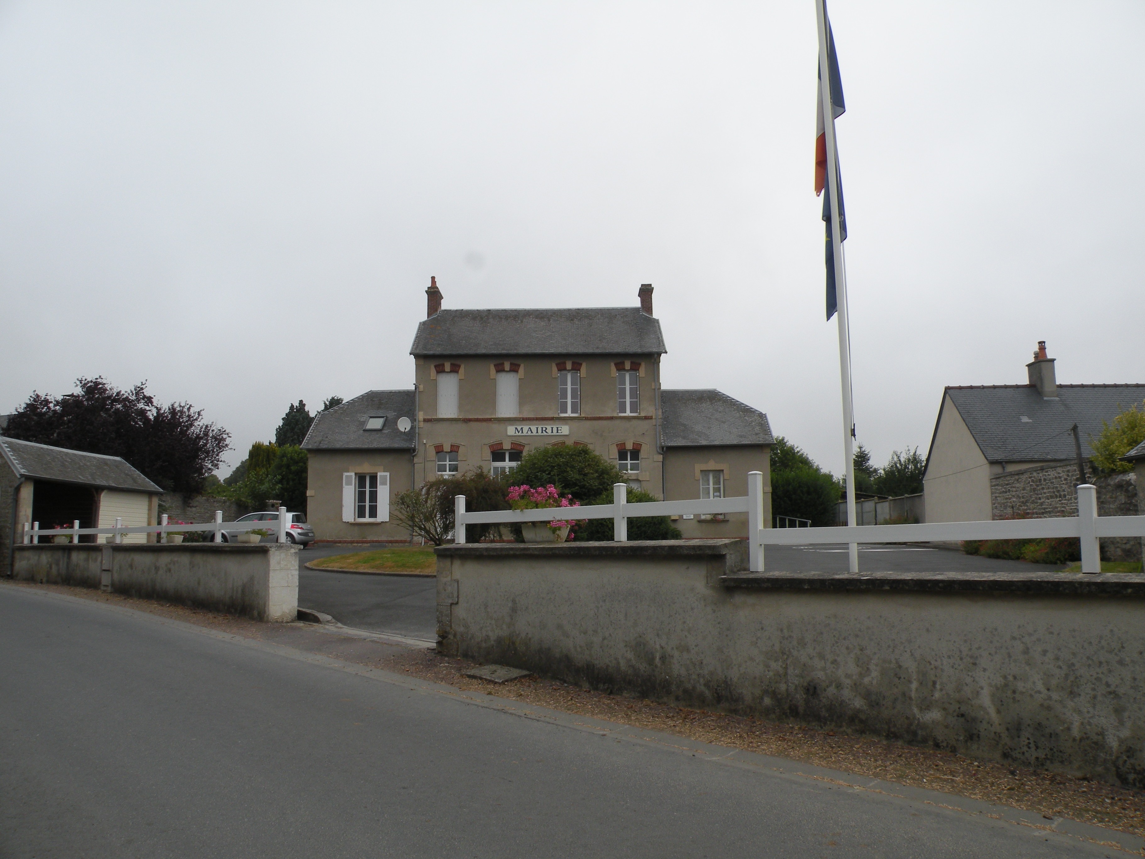 Cussy